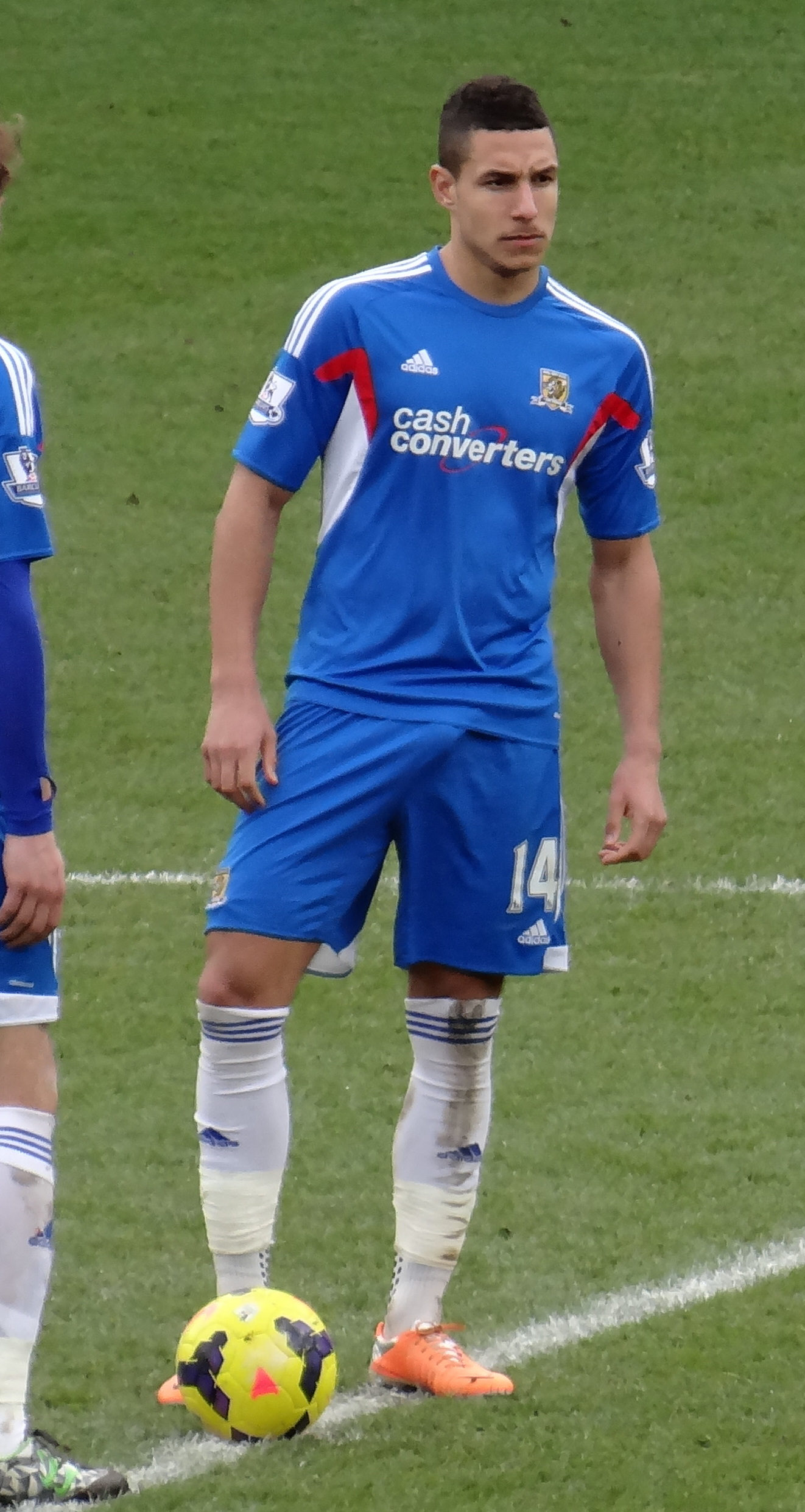 Hull City players: Croatian Nikica Jelavić (left) and English Jake Livermore (centre), Cardiff City player Norwegian Mats Møller Dæhli.